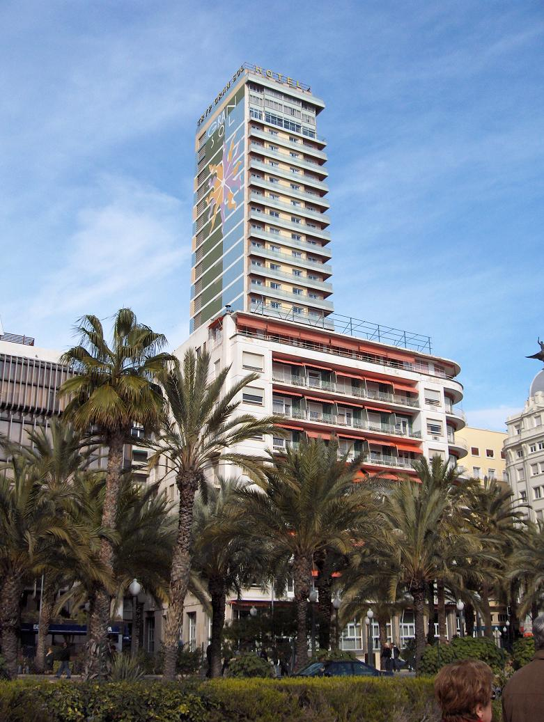 Gran Sol Building, in Alicante, Spain.